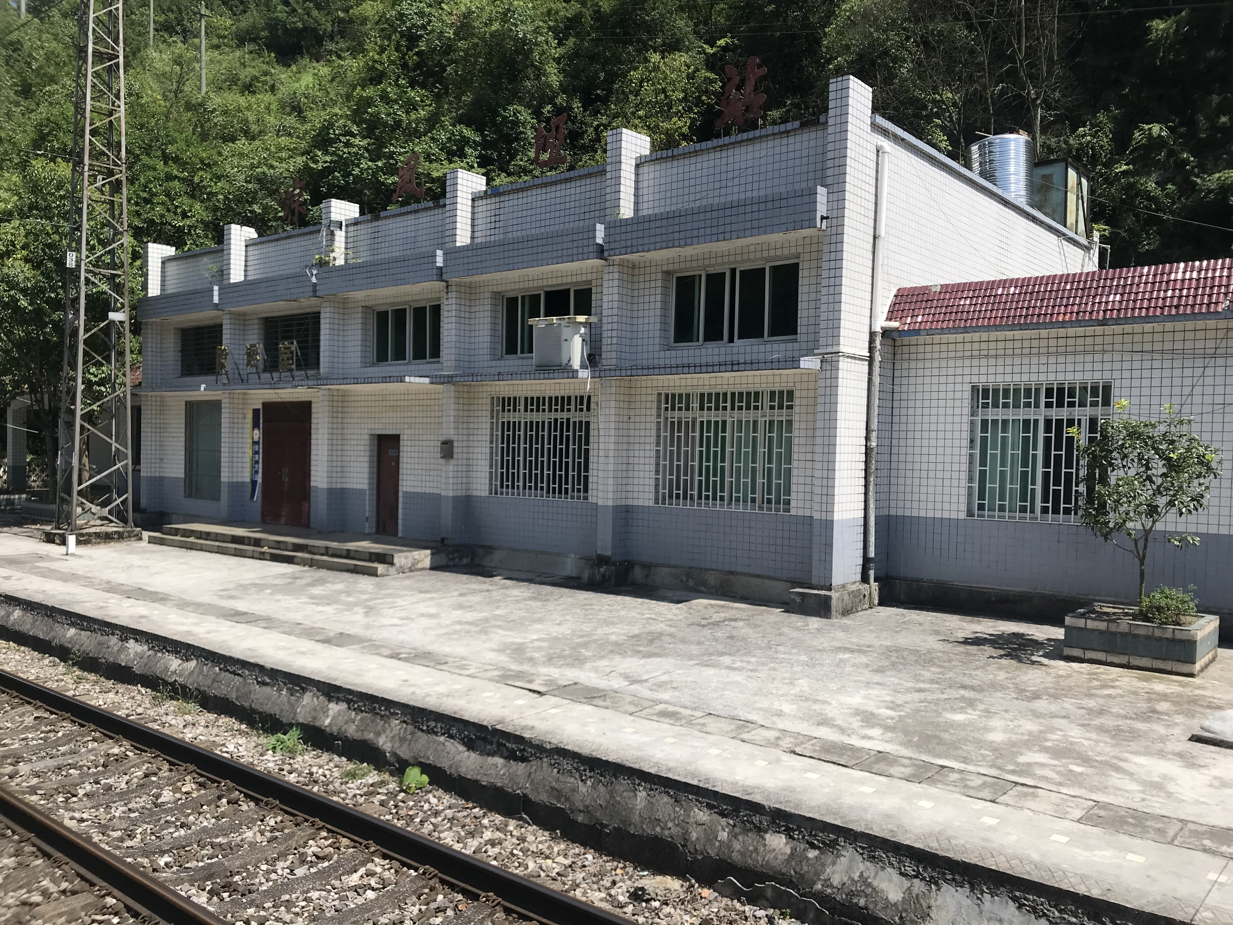 201908 Station Building of Liangfengya